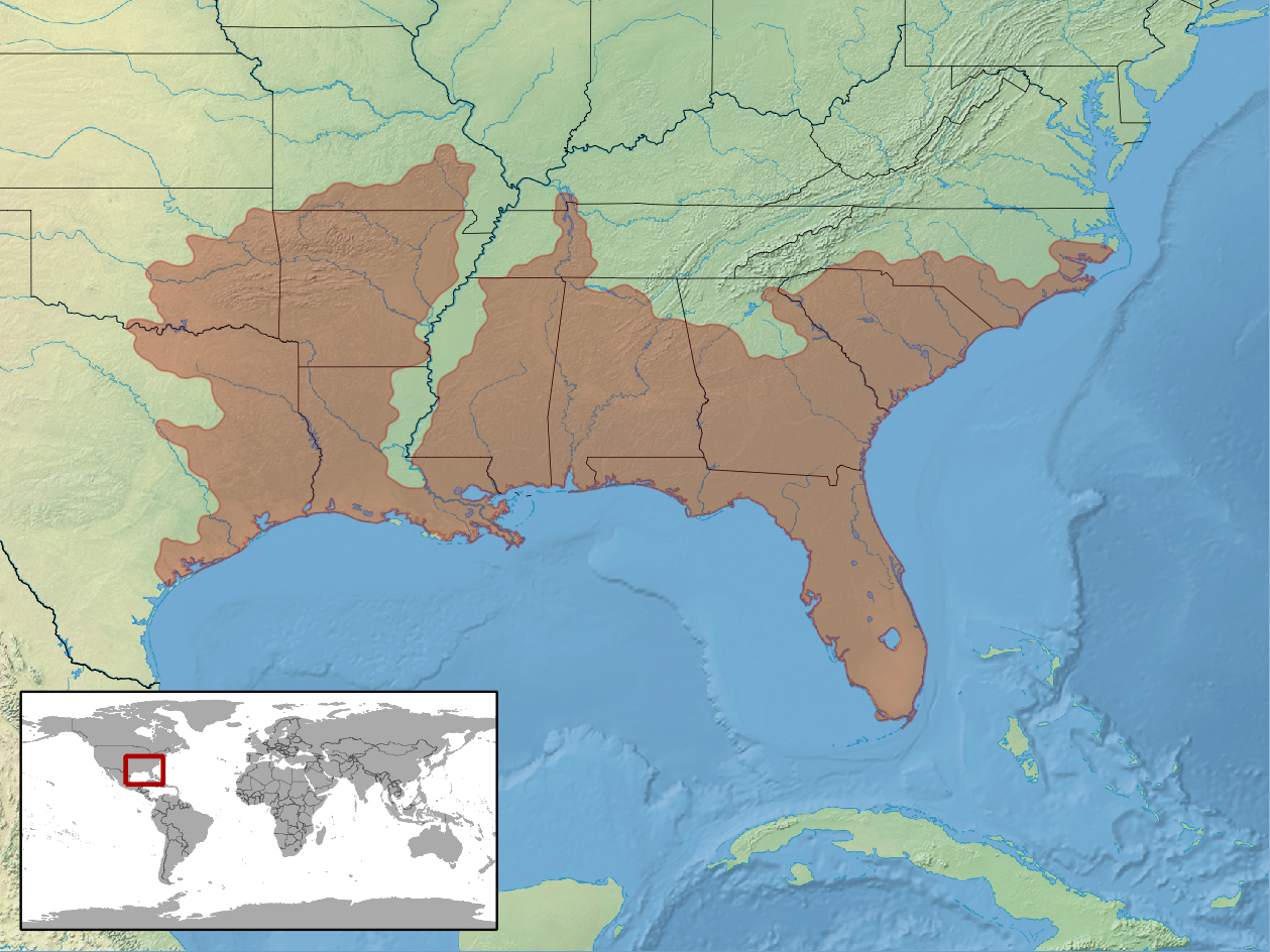 geographic distribution of Sistrurus miliarius (Native: United States)